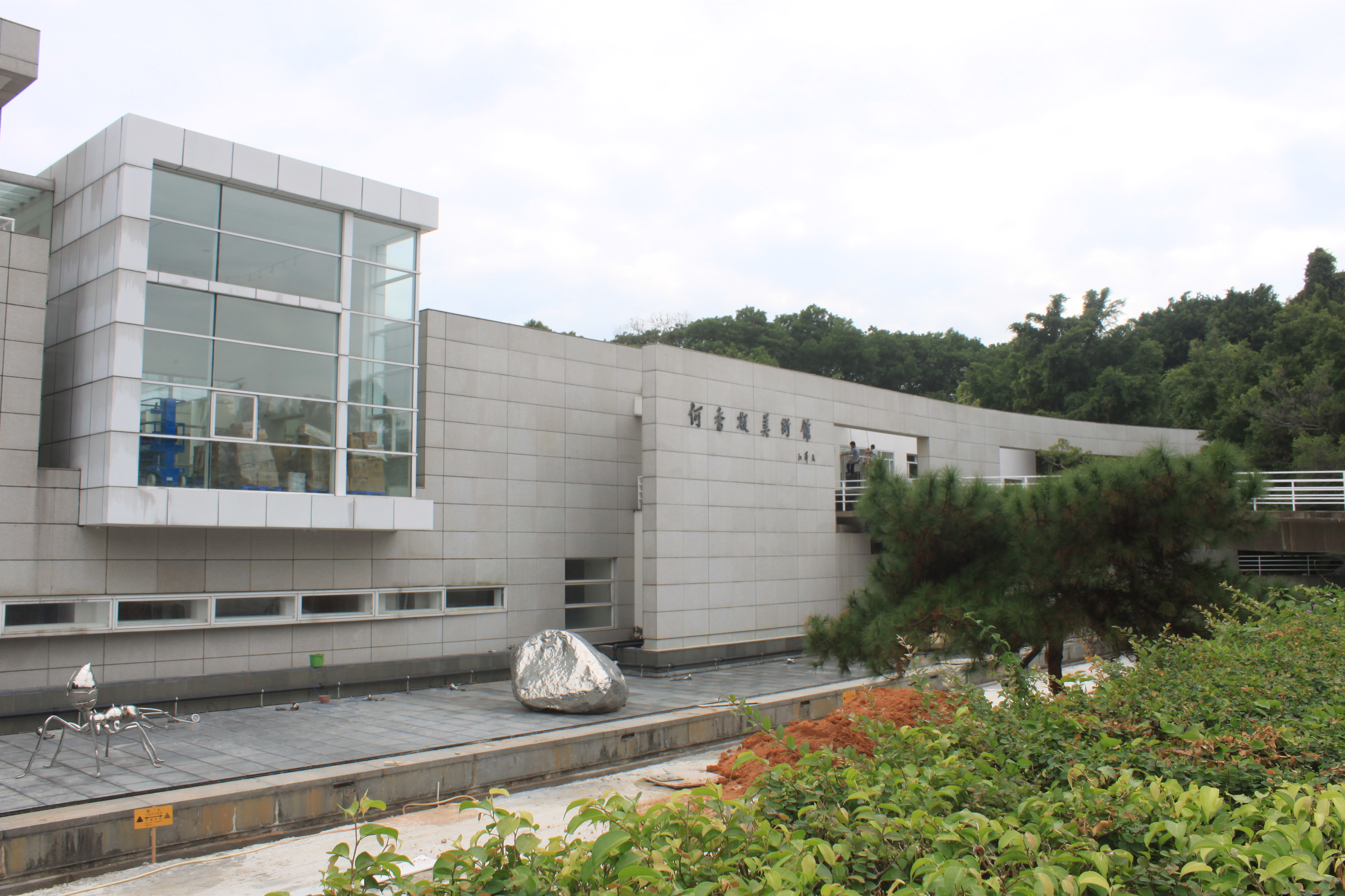 He Xiangning Art Museum is an art museum located in Futian District, Shenzhen, Guangdong, China. It borders on the Window of the World.